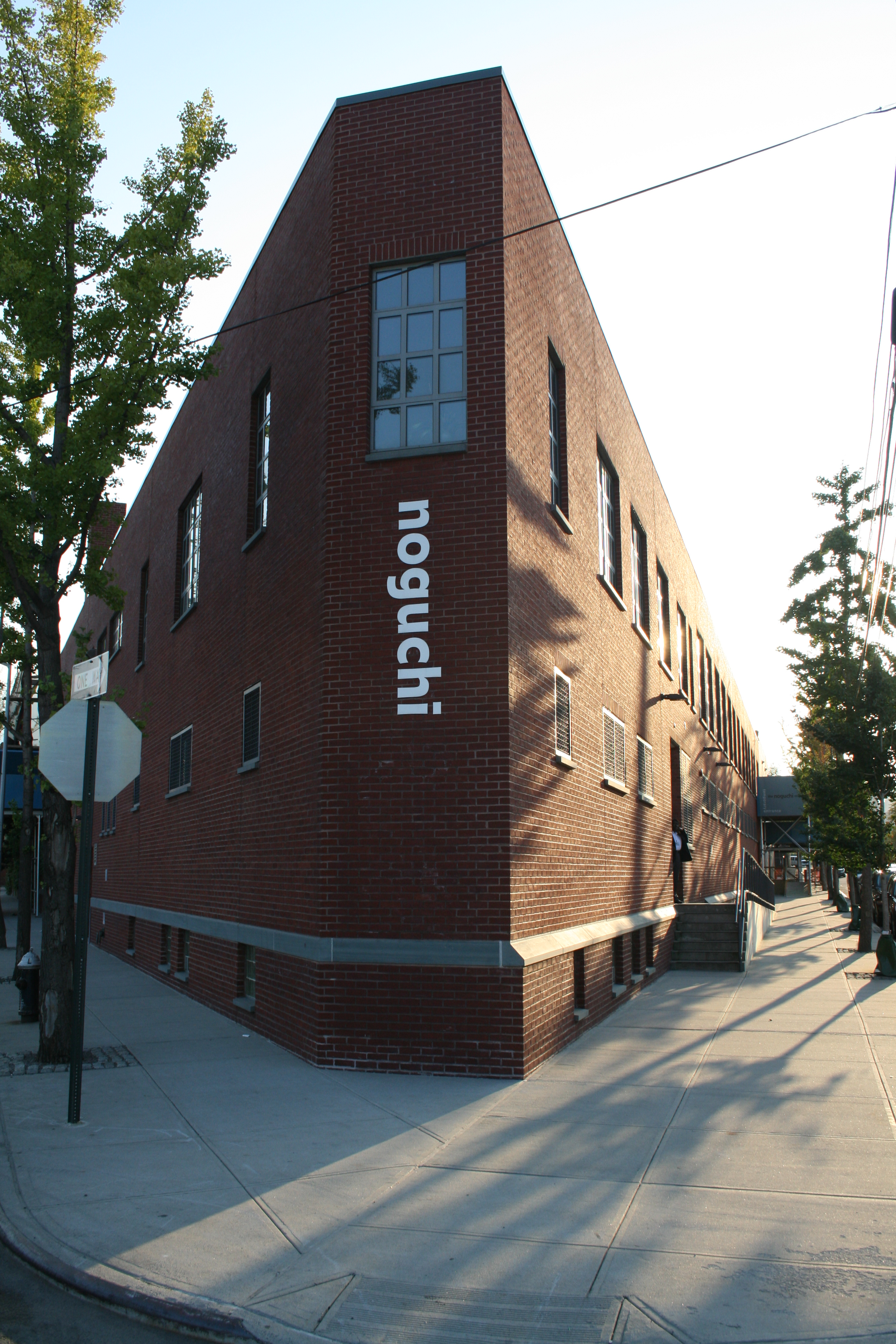 This photo is of Wikis Take Manhattan goal code L9, Noguchi Museum.